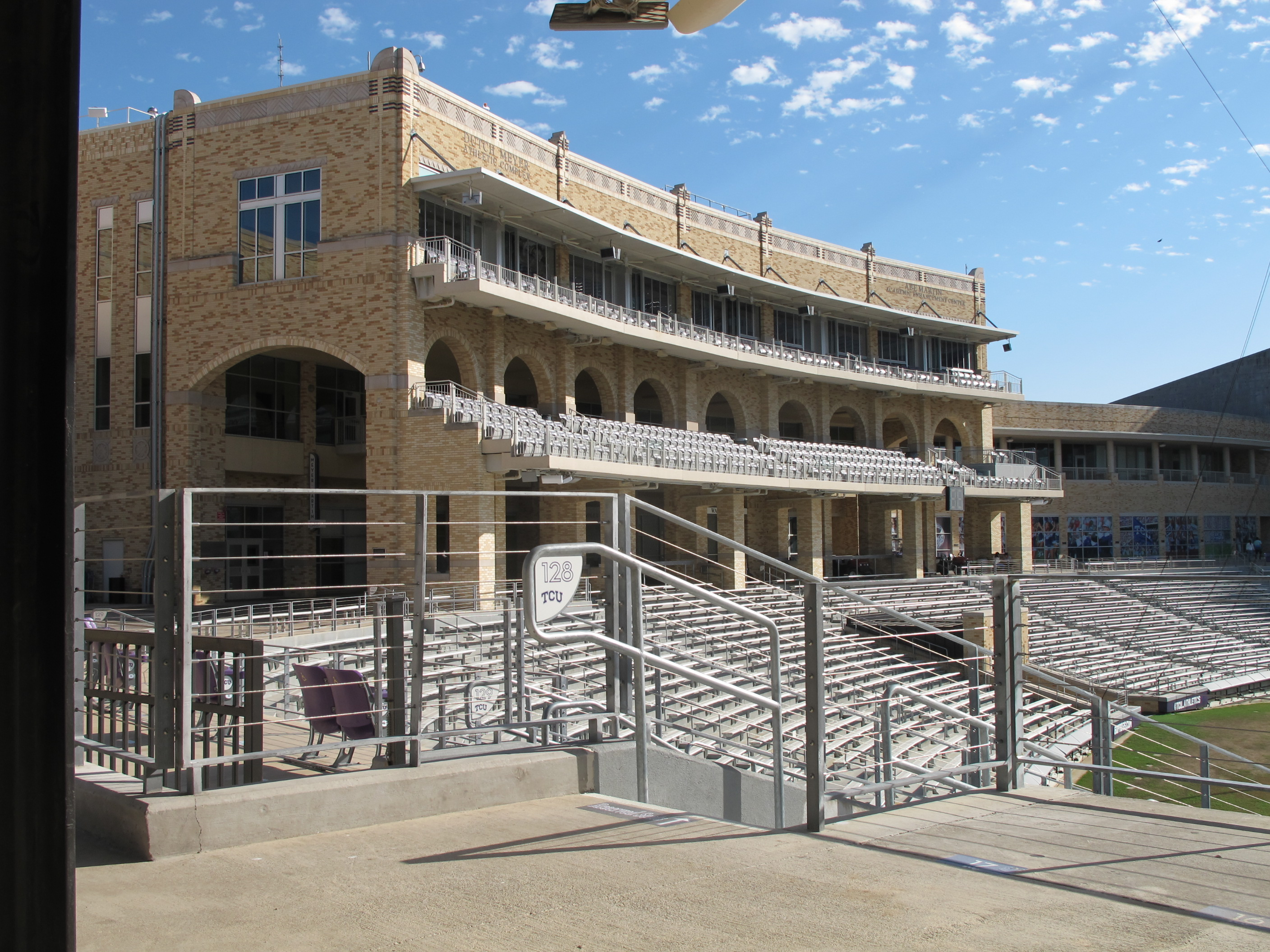 TCU's Amon Carter Stadium upgraded End Zone